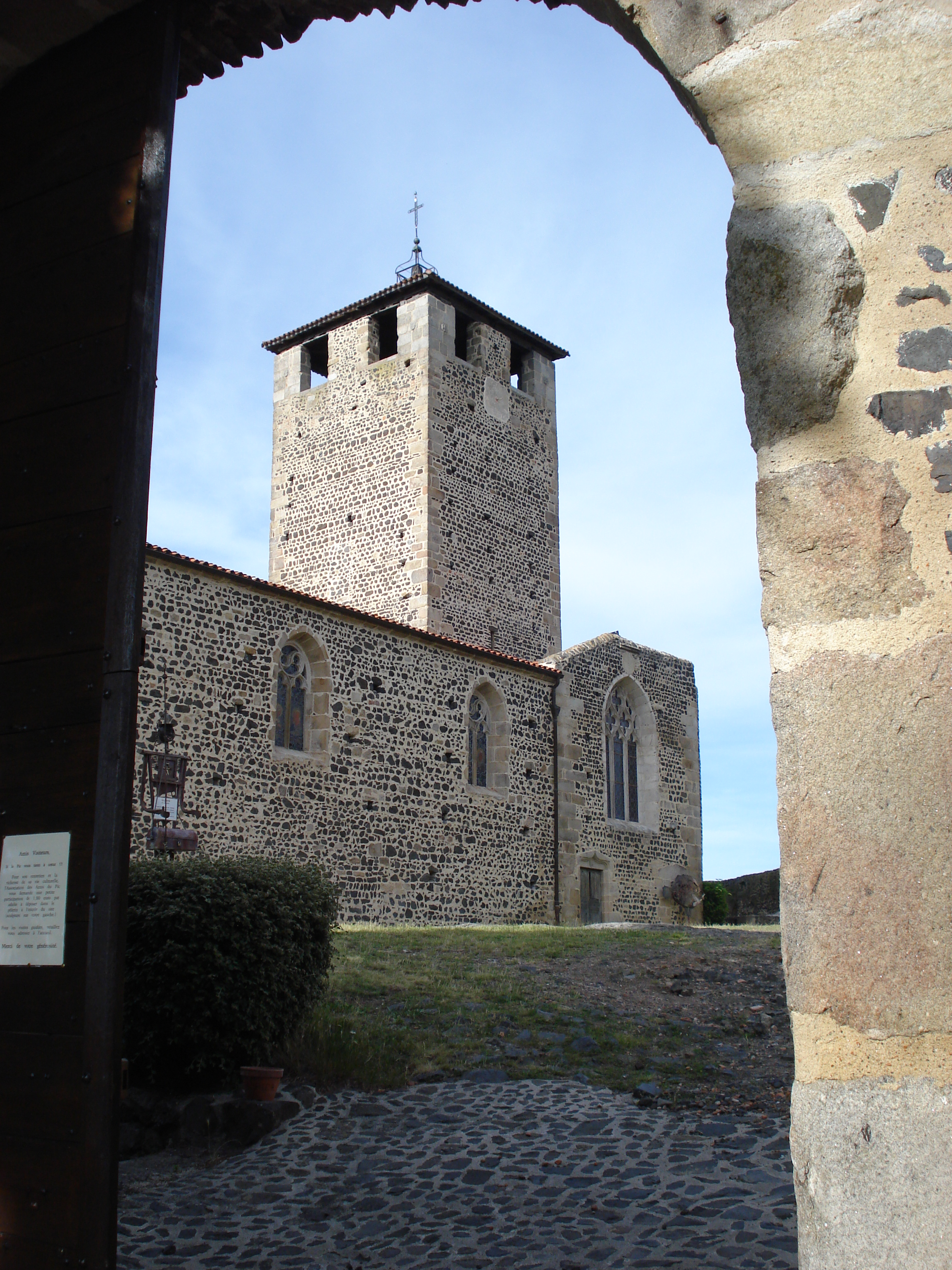 Montverdun, church, viewed through the monastery gate